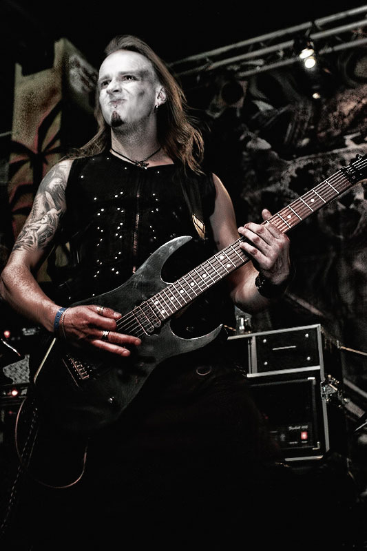 Przemysław Quazarre Olbryt of Crionics